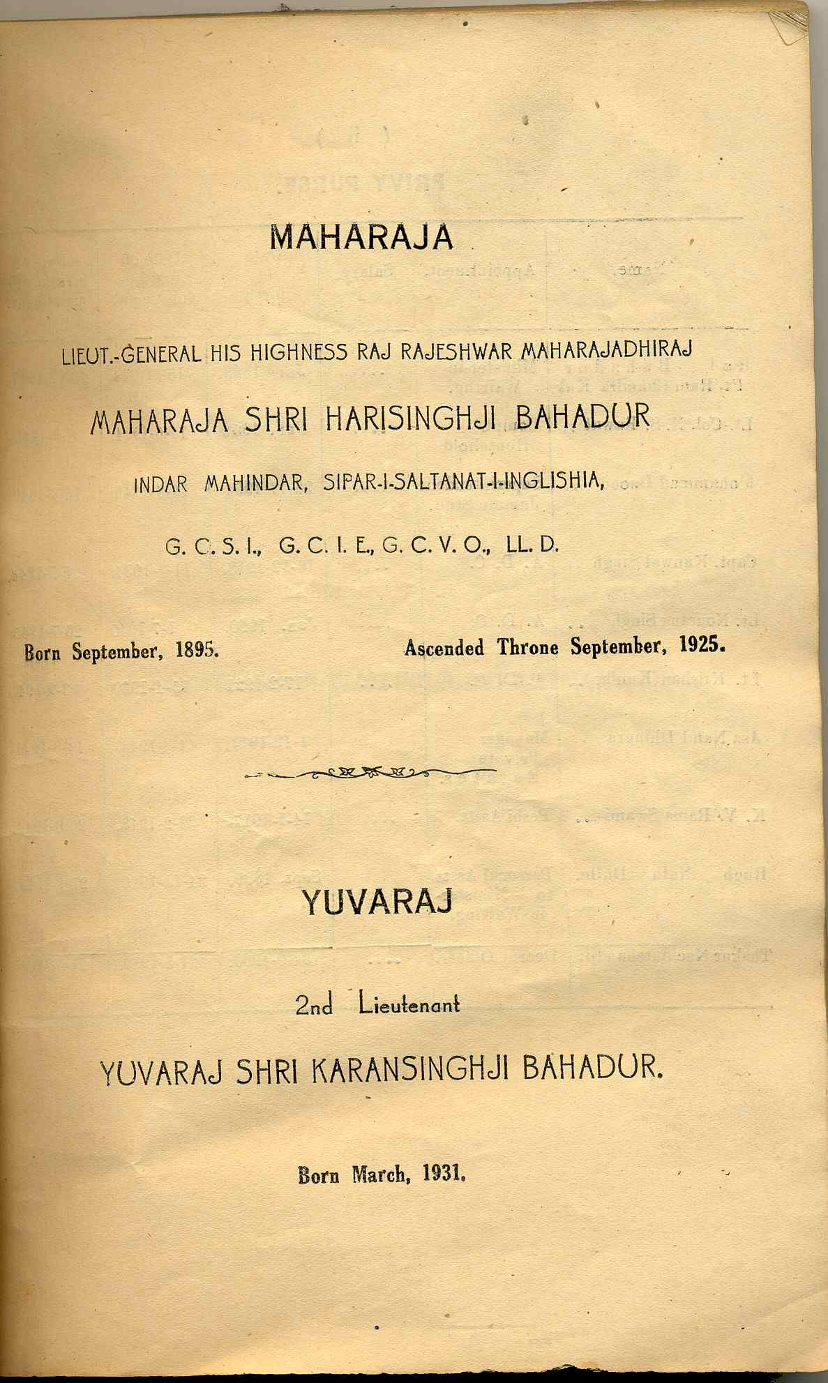 Titles of Maharaja Hari Singh and Yuvraj(Crown Prince) as printed on the list of civil officers of Maharaja Hari Singh(Civil List)of 1945